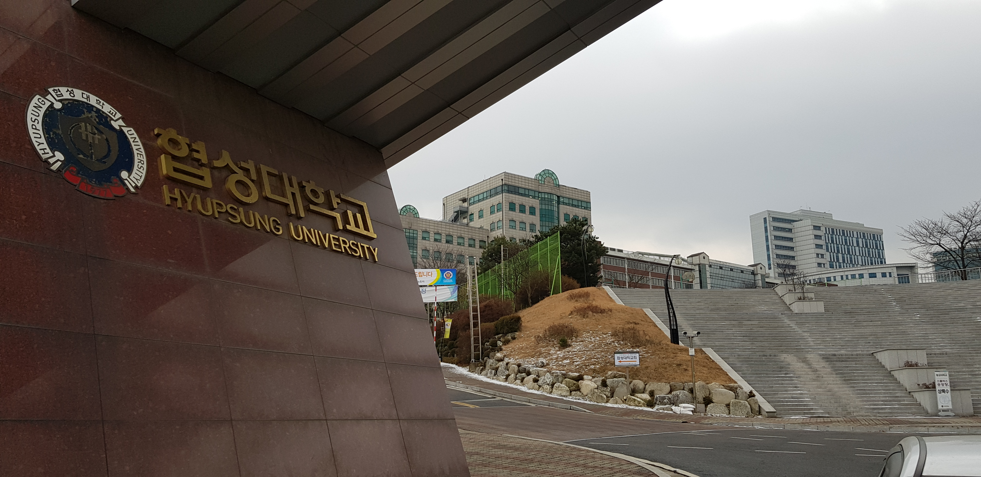 Hyubsung University